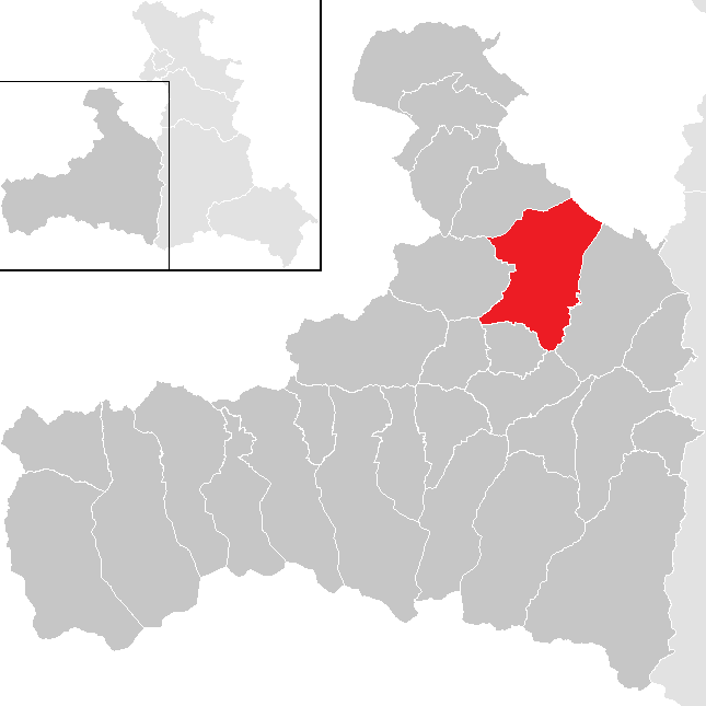 District Zell am See